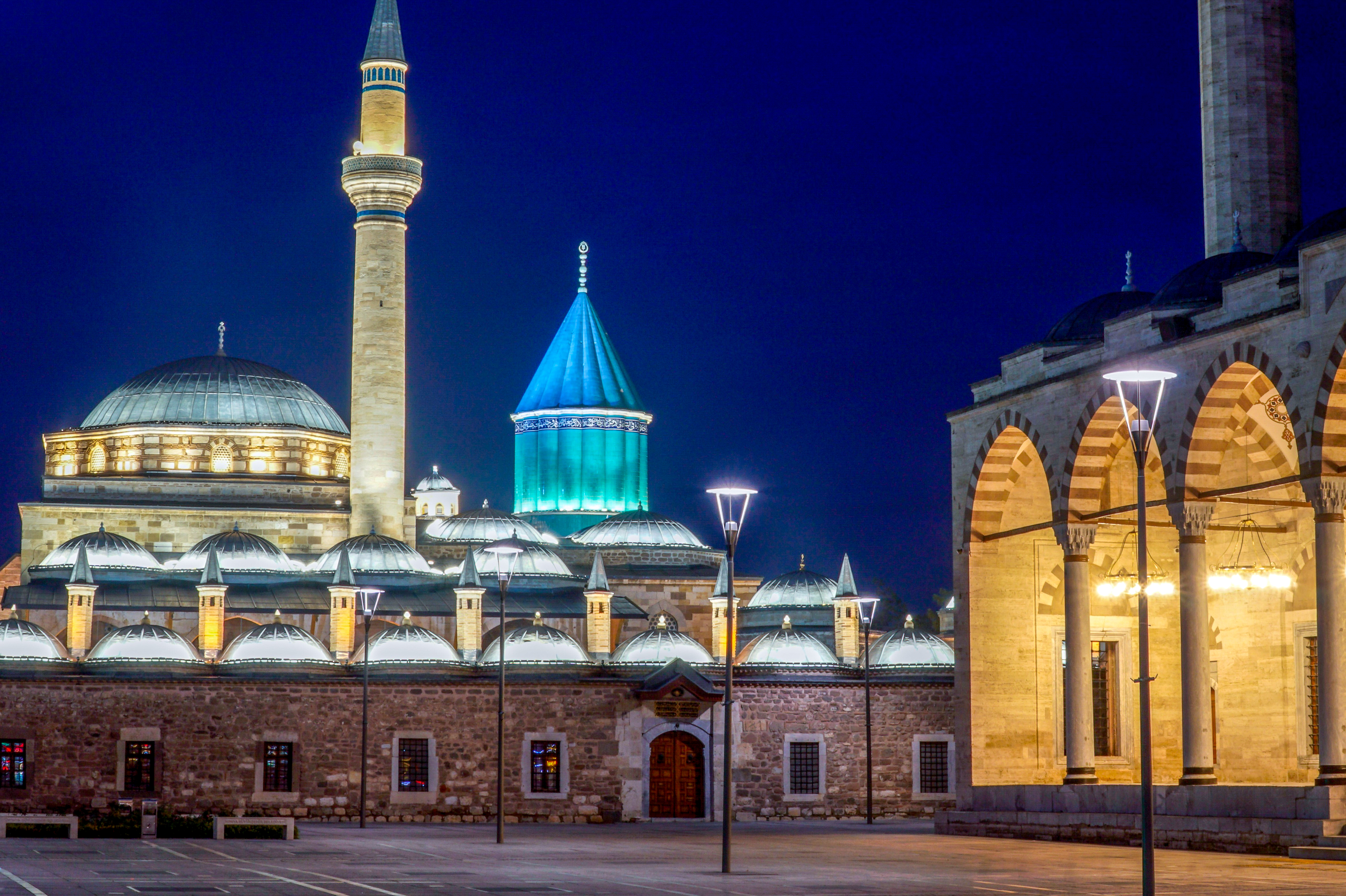 Maulana Jelaledin Muhammad Rumi in konya